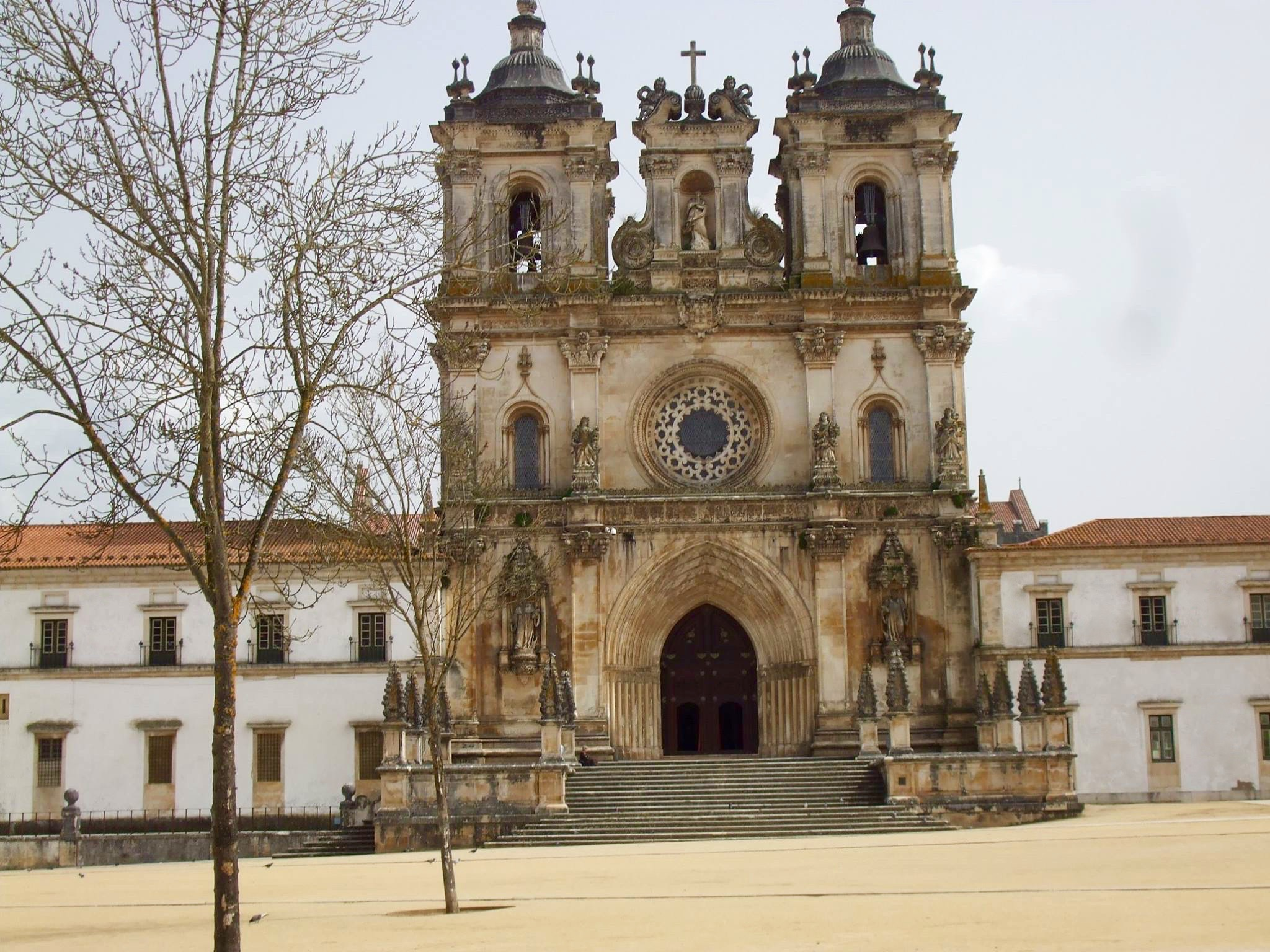 Foto de Alcobaça